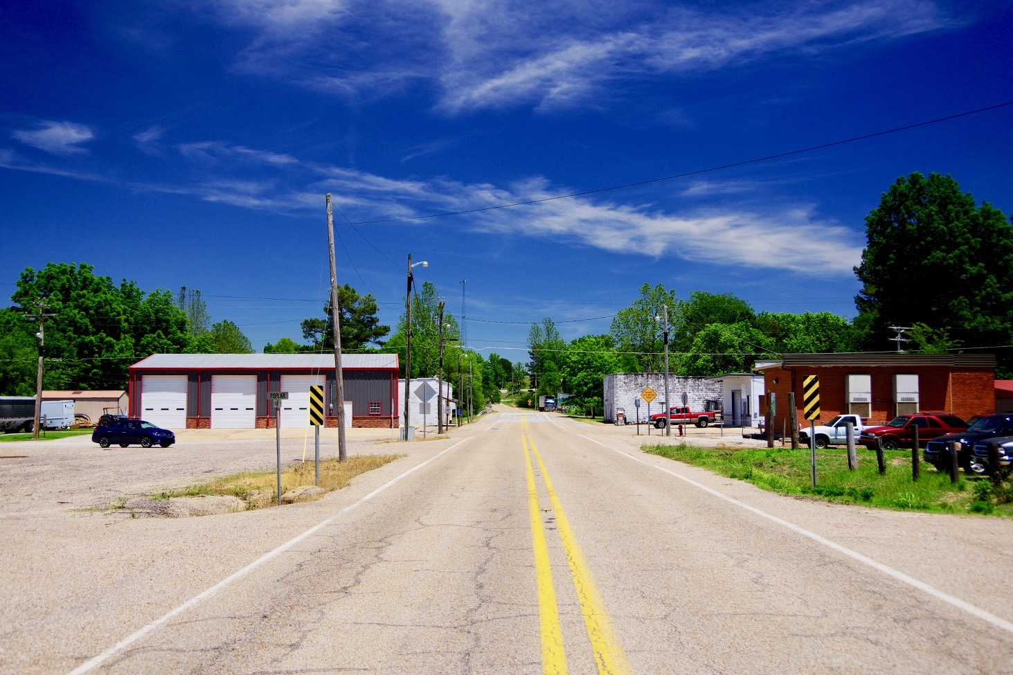 Main Street (U.S. Route 62) in Pollard, Arkansas, United States